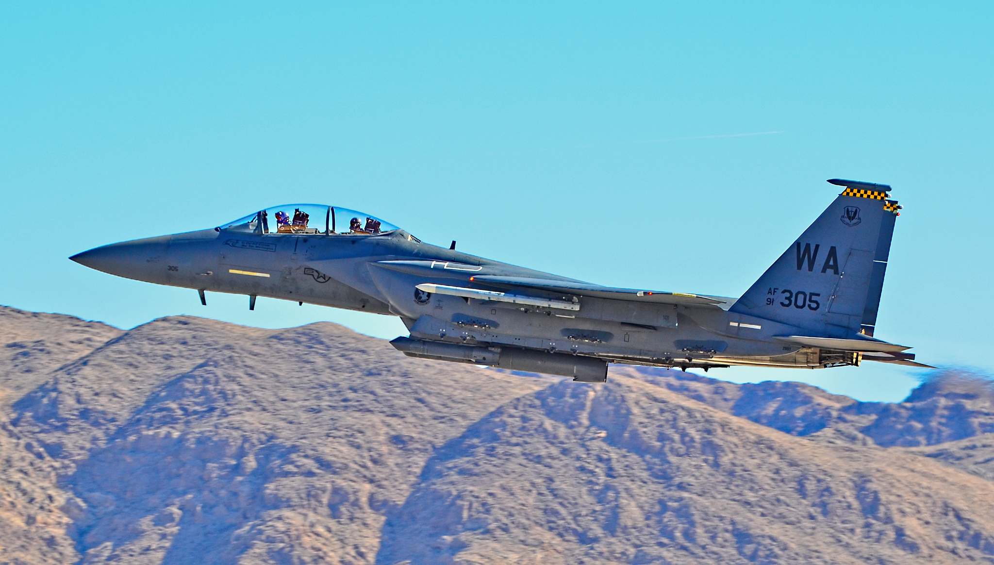 Las Vegas - Nellis AFB (LSV / KLSV) Aviation Nation 2014 Air Show USA - Nevada, November 8, 2014 Photo: TDelCoro